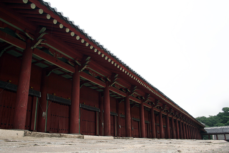 Another view of the main hall.